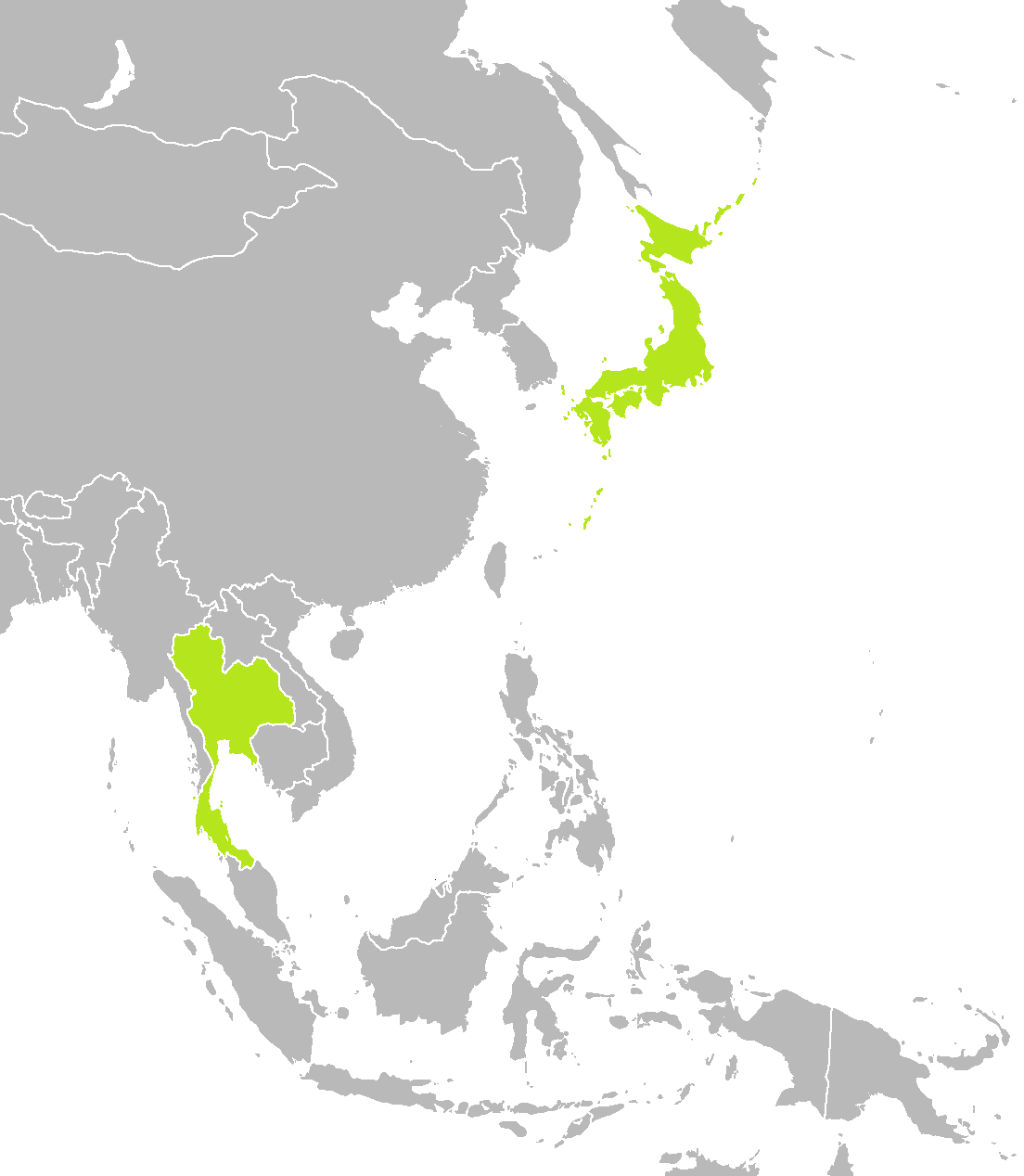 The maps of the Line Music availability, shaded in green colorTiếng Việt: Các quốc gia khả dụng line music